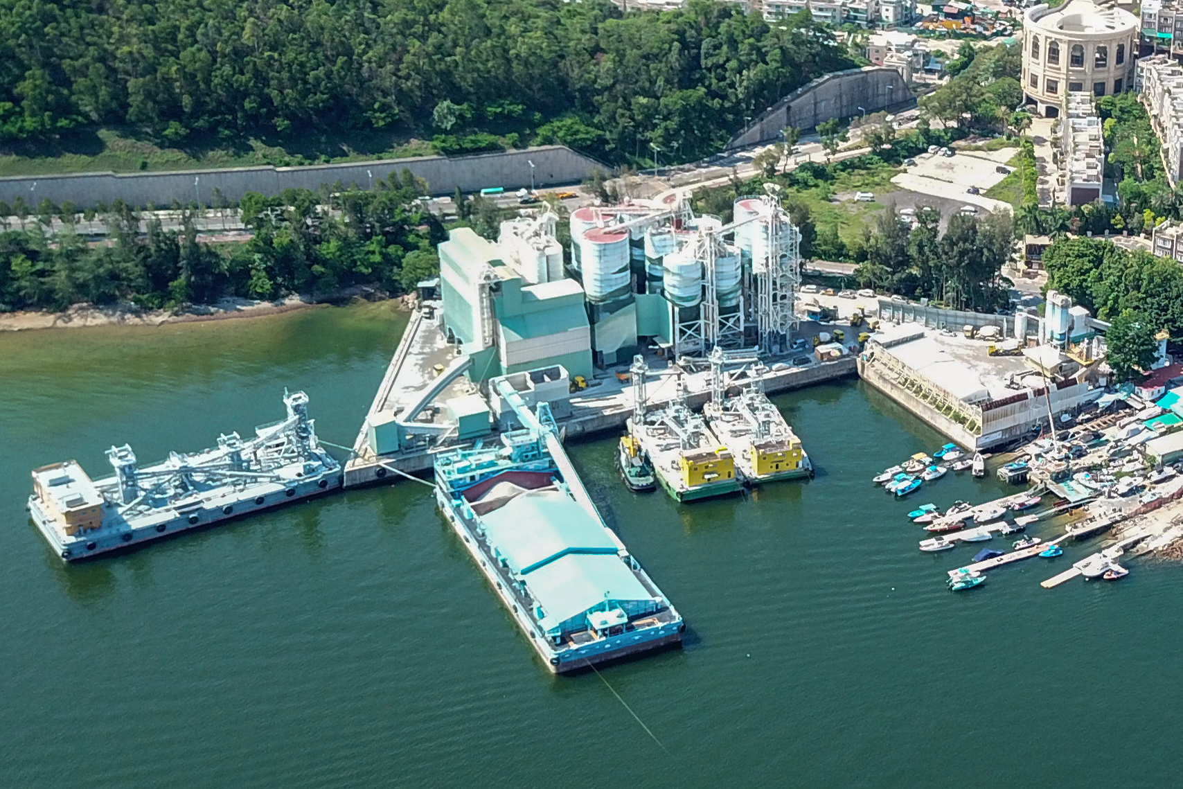 K.Wah Construction materials